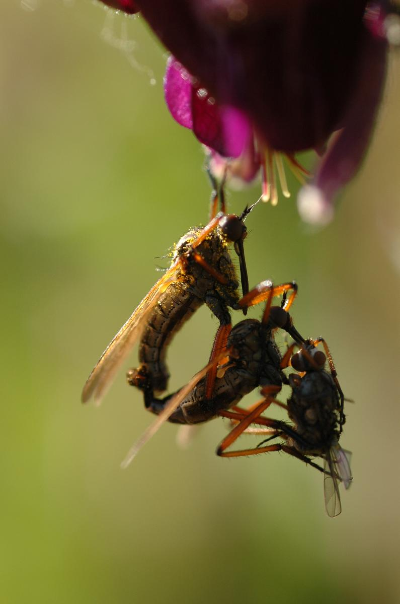 Mating Empididae. The article on these insects talks of "elaborate courtship ritual in which the male wraps a prey item in silk and presents it to the female to stimulate copulation", but the two of them were first mating without fly, and the fly happened to come and fly right into the arms of the bottom Empididae. Could there be pheromones at work here?